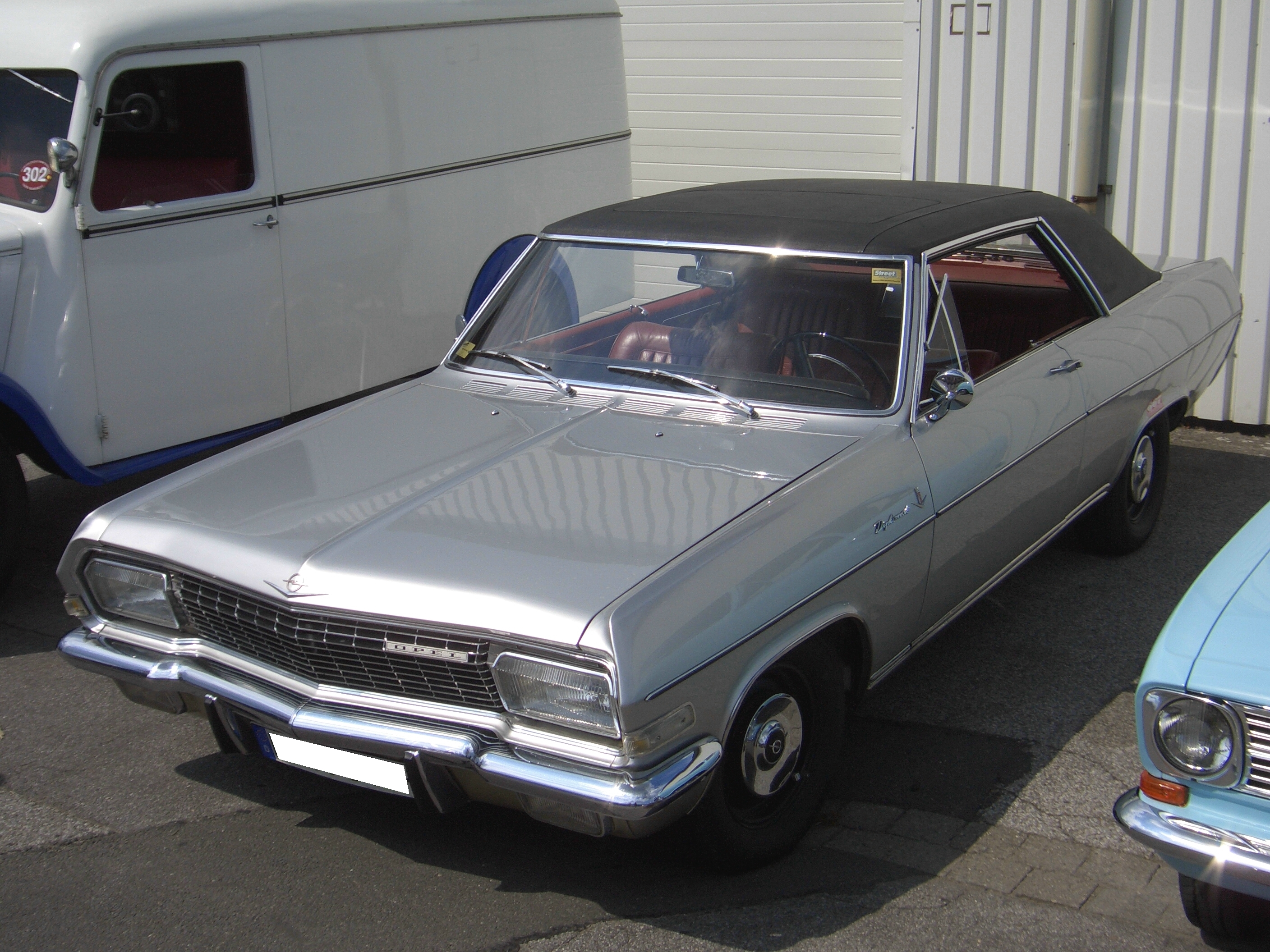 Opel Diplomat (A) V8 Coupé, 1965-1967,seen at vintage car meeting in Leverkusen, Germany, August 2008